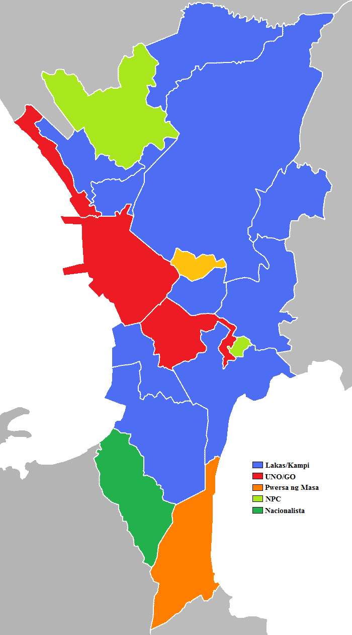 Mayors of Metro Manila according to their political party affiliation.